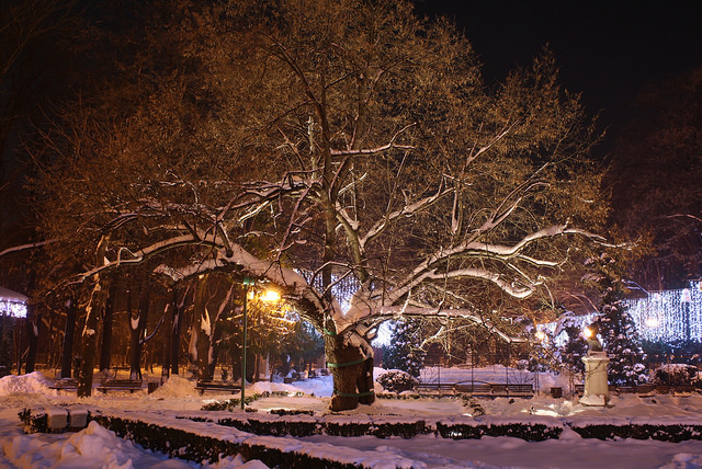 Eminescu's Linden Tree (at night)